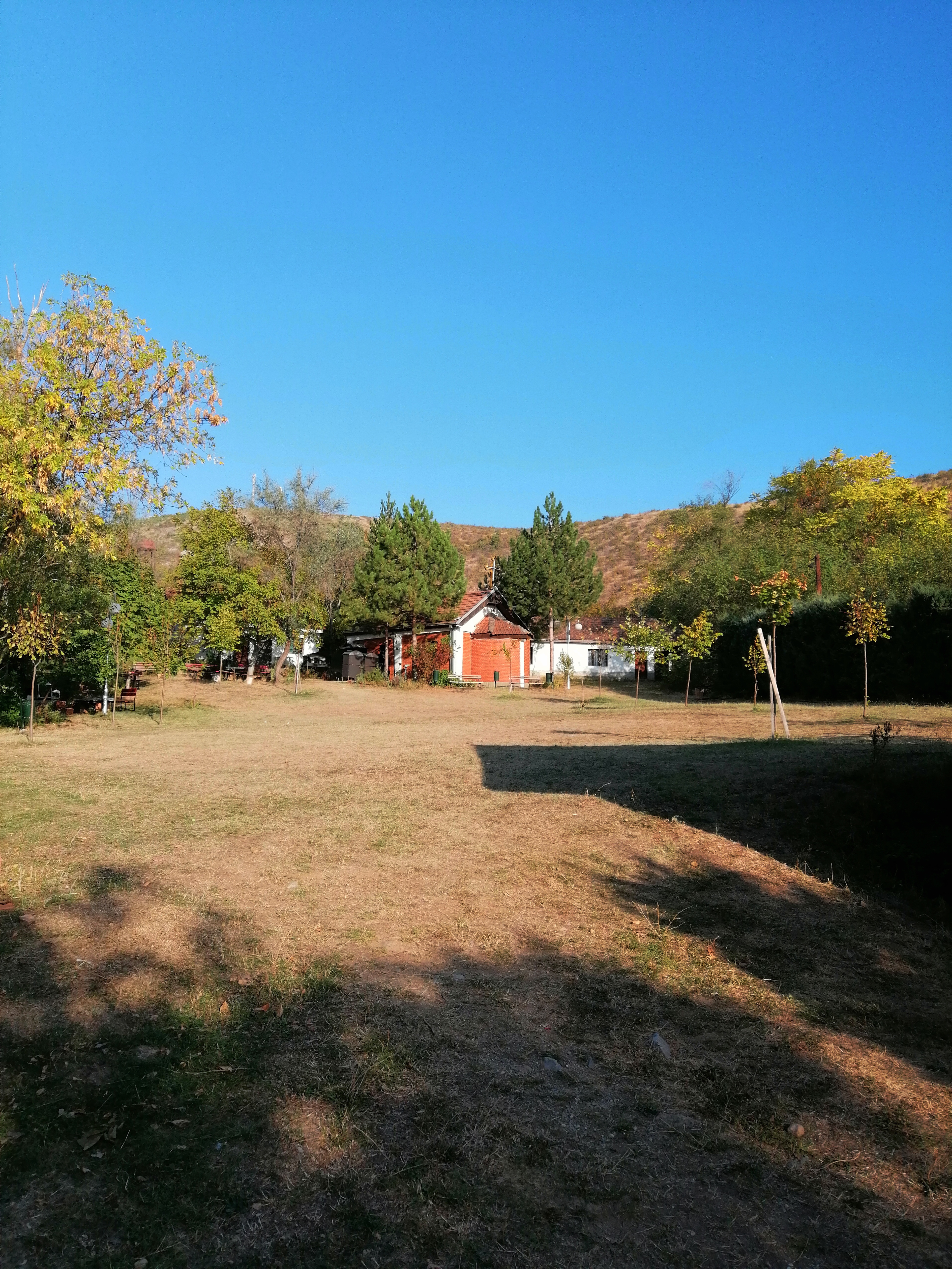 View of the Orman Monastery